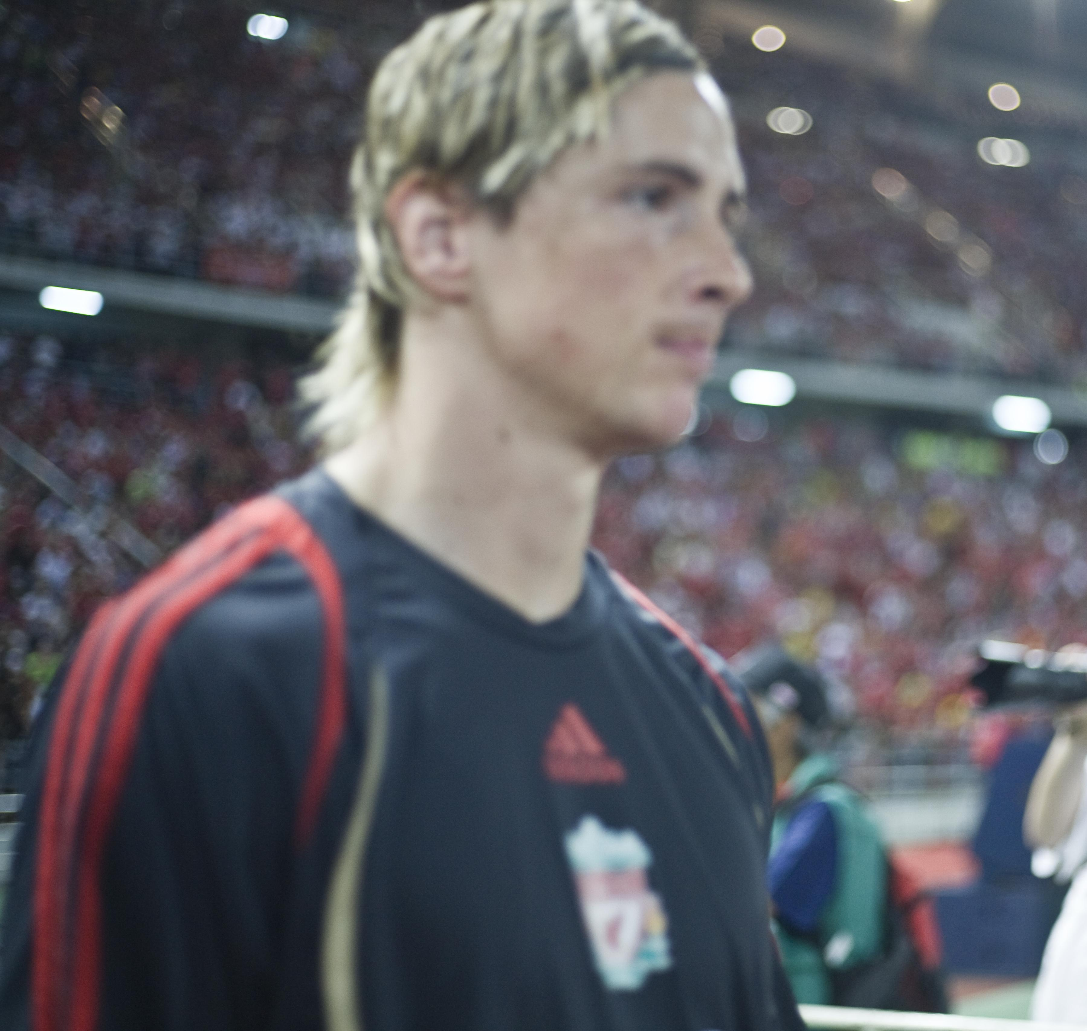 Fernando Torres เดินลงสนาม (The Official Site of The Prime Minister of Thailand Photo by พีรพัฒน์ วิมลรังครัตน์)